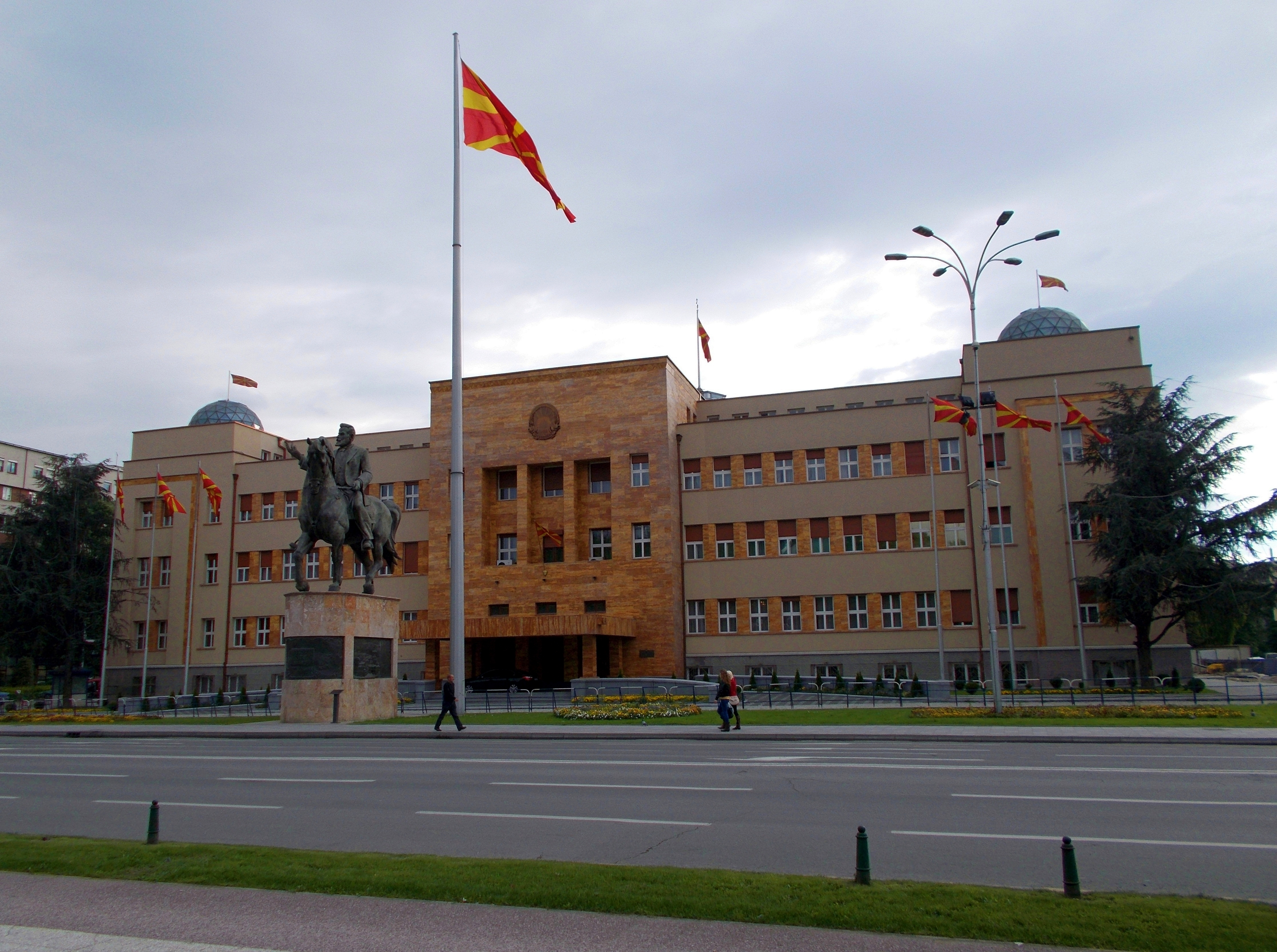 Assembly of North Macedonia